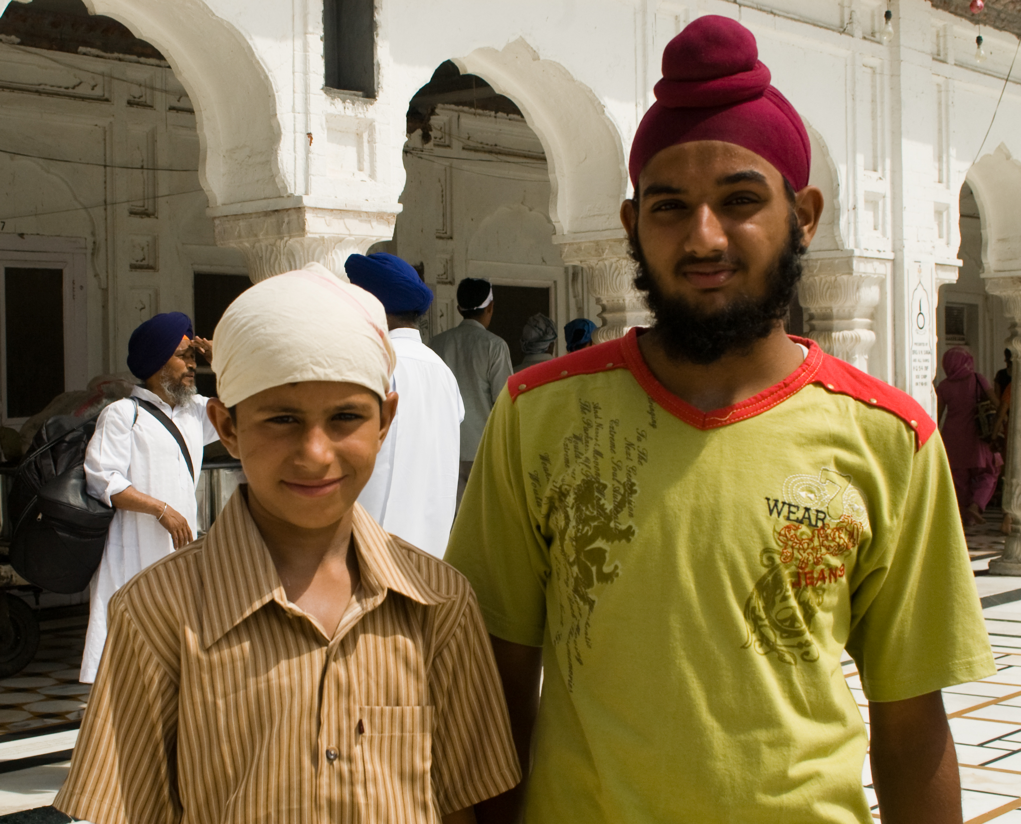 Boy wearing a rumal and young man wearing under-turban at the Sikh Golden Temple, Harmandir Sahib, in Amritsar.